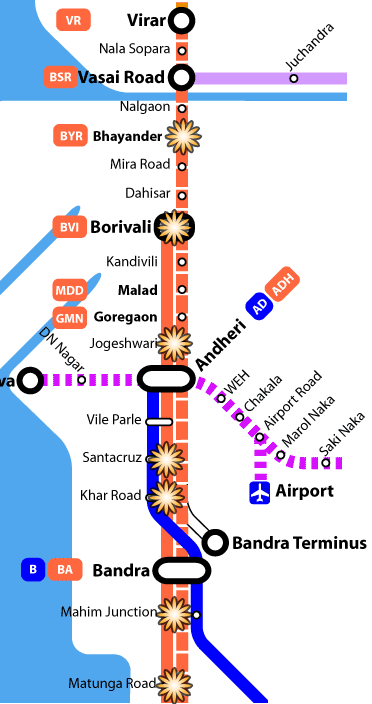 Map showing the blast locations of the 11 July 2006 Mumbai train bombings.